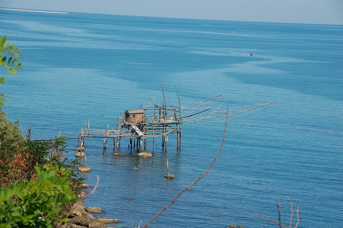 River Sangro